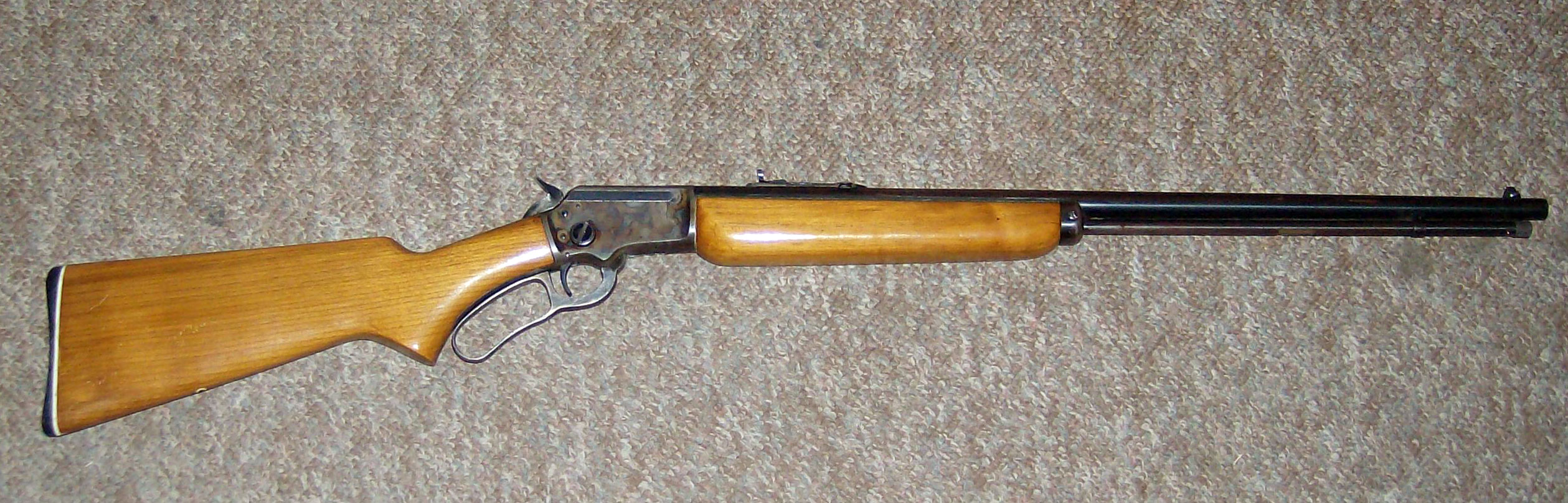 A Marlin 39A lever action .22LR rifle. This example dates from 1944 and does not have the safety switch or golden trigger seen on the current Golden 39A.